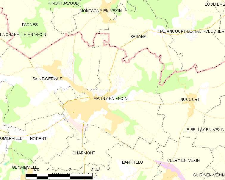 Map of French municipality Magny-en-Vexin